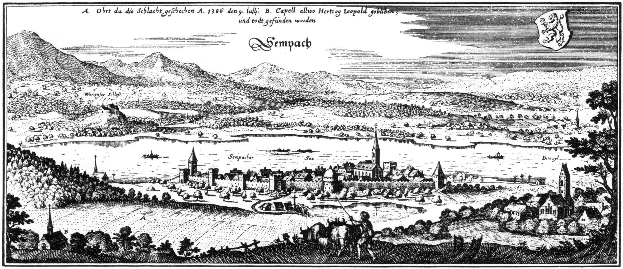 The City of Sempach in Switzerland in an engraving by Matthäus Merian, 1654